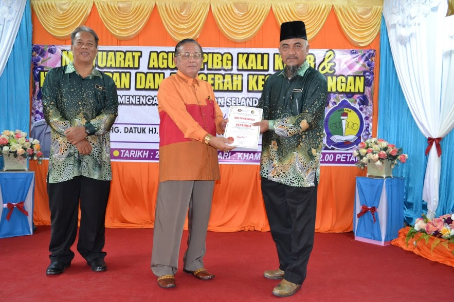 GAMBAR 17